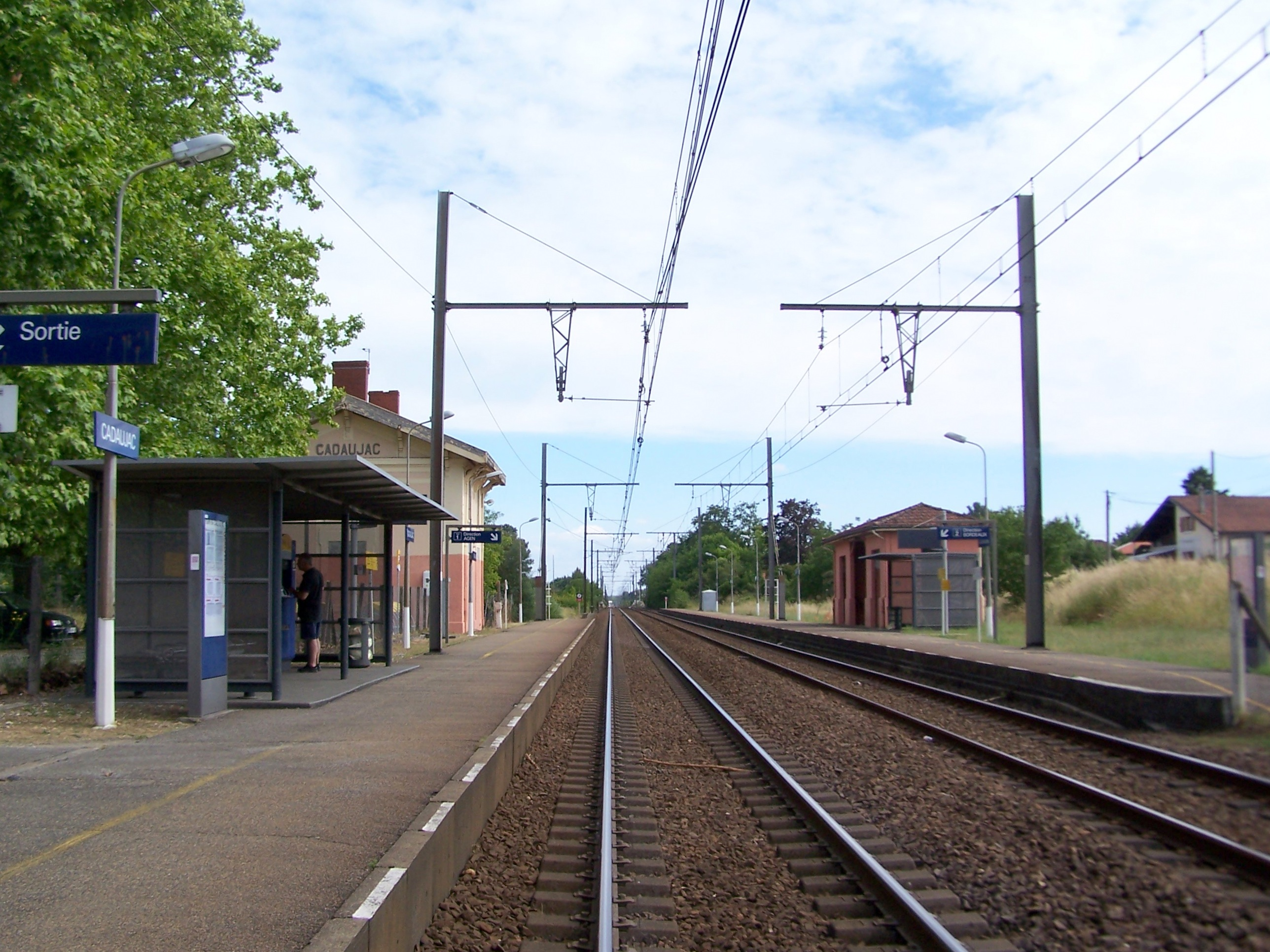 Train station of Cadaujac (Gironde, France, tracks toward Agen